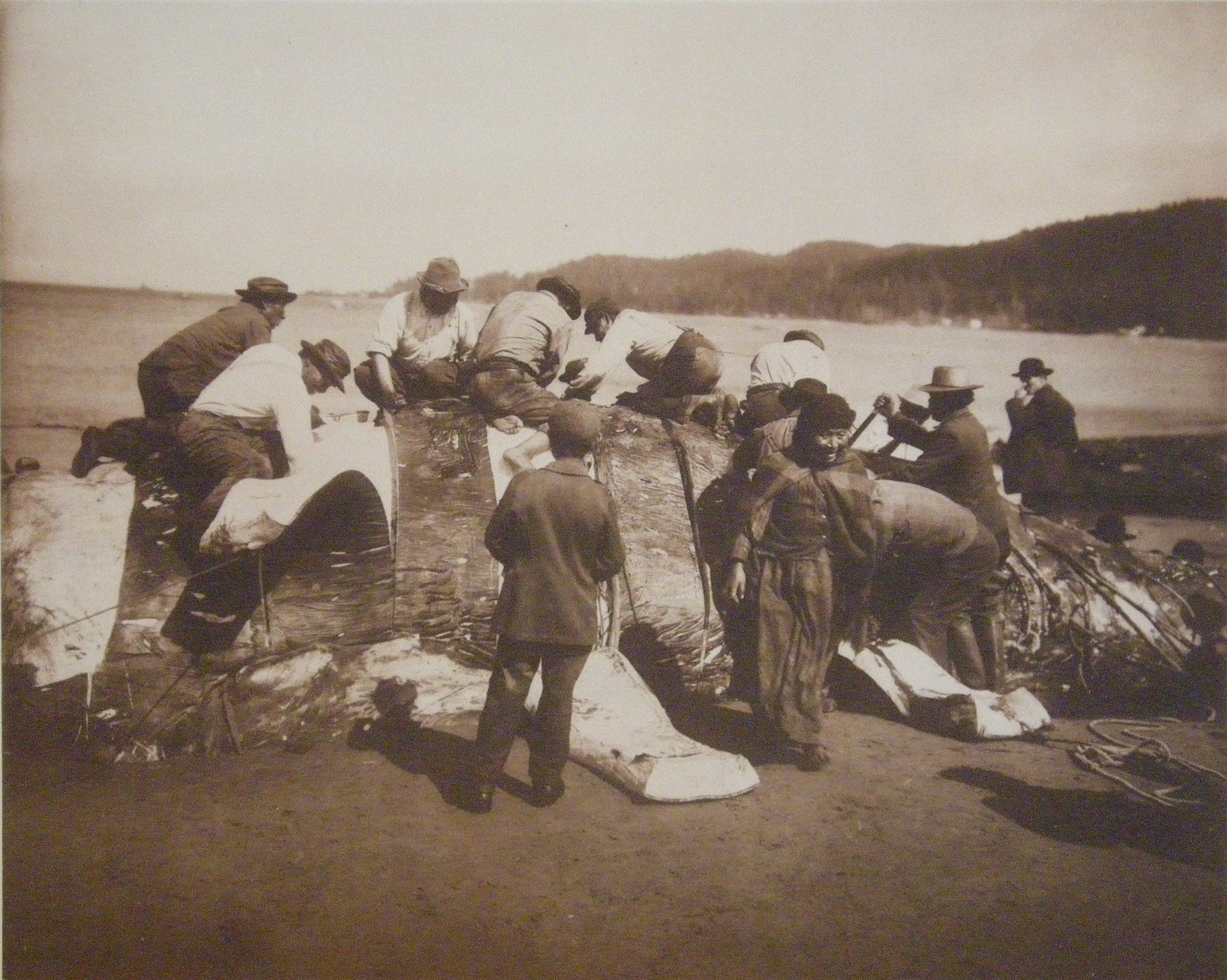 "Indian Whalers Stripping Their Prey at Neah Bay"; photograph of Makah Indians.